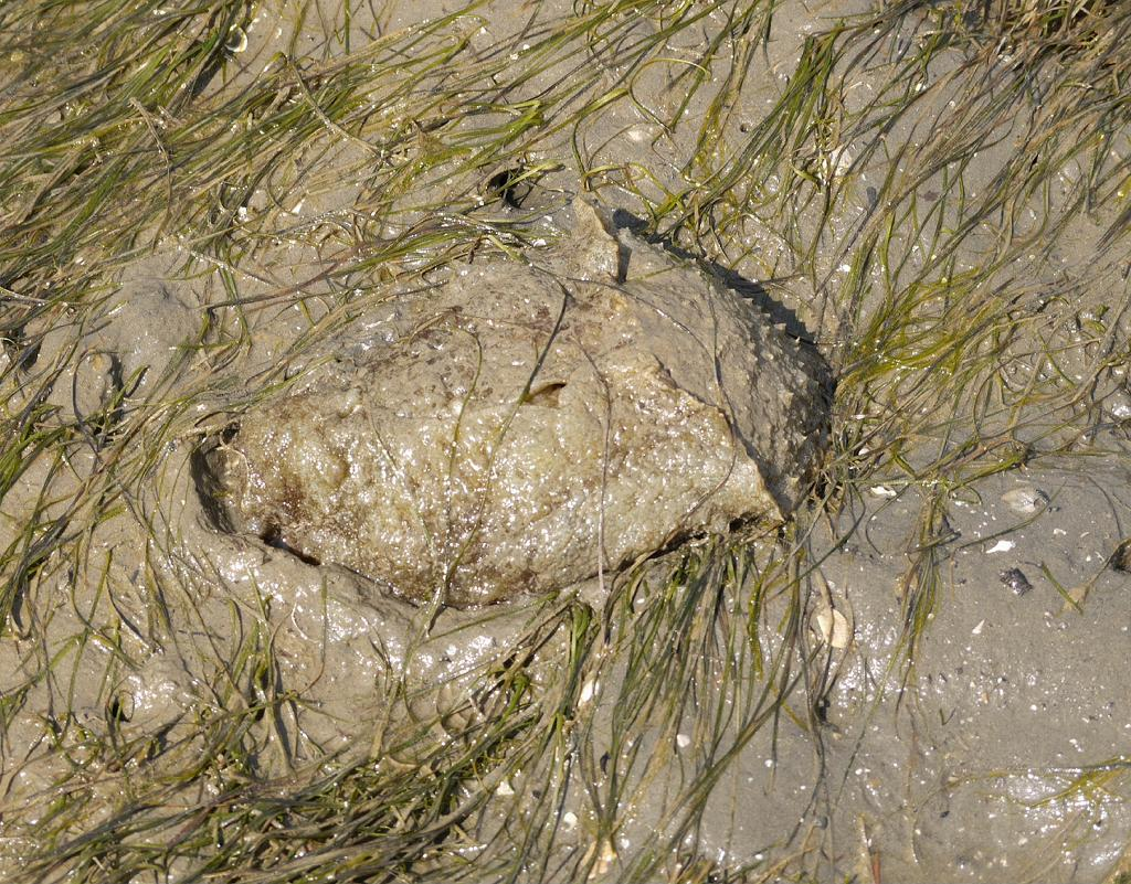 Dolabella auricularia(Aplysiidae)